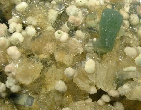 Heulandite-Ca, Celadonite Locality: Nasik District, Maharashtra, India (Locality at ) Size: 12.5 x 8 x 3 cm. An unusual, and very attractive, plate of multiple-growth Heulandites, accented by Calcites and other accessory minerals. The primary thick layer of Heulandites is the classic deep green (a very pure, lovely green) included by Celadonite, growing in blocky, slightly curved crystals averaging about .3-.4 cm. The lower, thinner layer (about .5 cm thick) is a beautiful brick red Heulandite, likely included with Hematite. The green layer on top is accented with very nice, honey-colored Calcites up to about .4 cm. Extremely aesthetic, this piece is out of the ordinary, and from Charlie Key's noted Indian minerals suite.